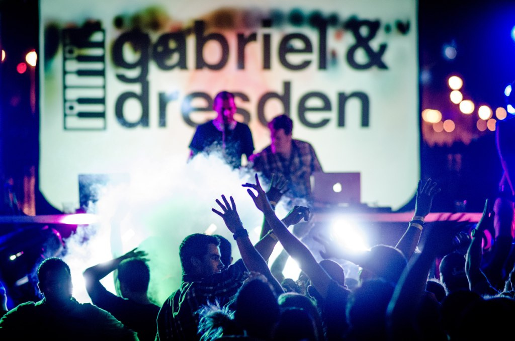 Gabriel & Dresden at The Aloha Tower Market Place in Honolulu, Hawaii. Photo by Peter Chiapperino